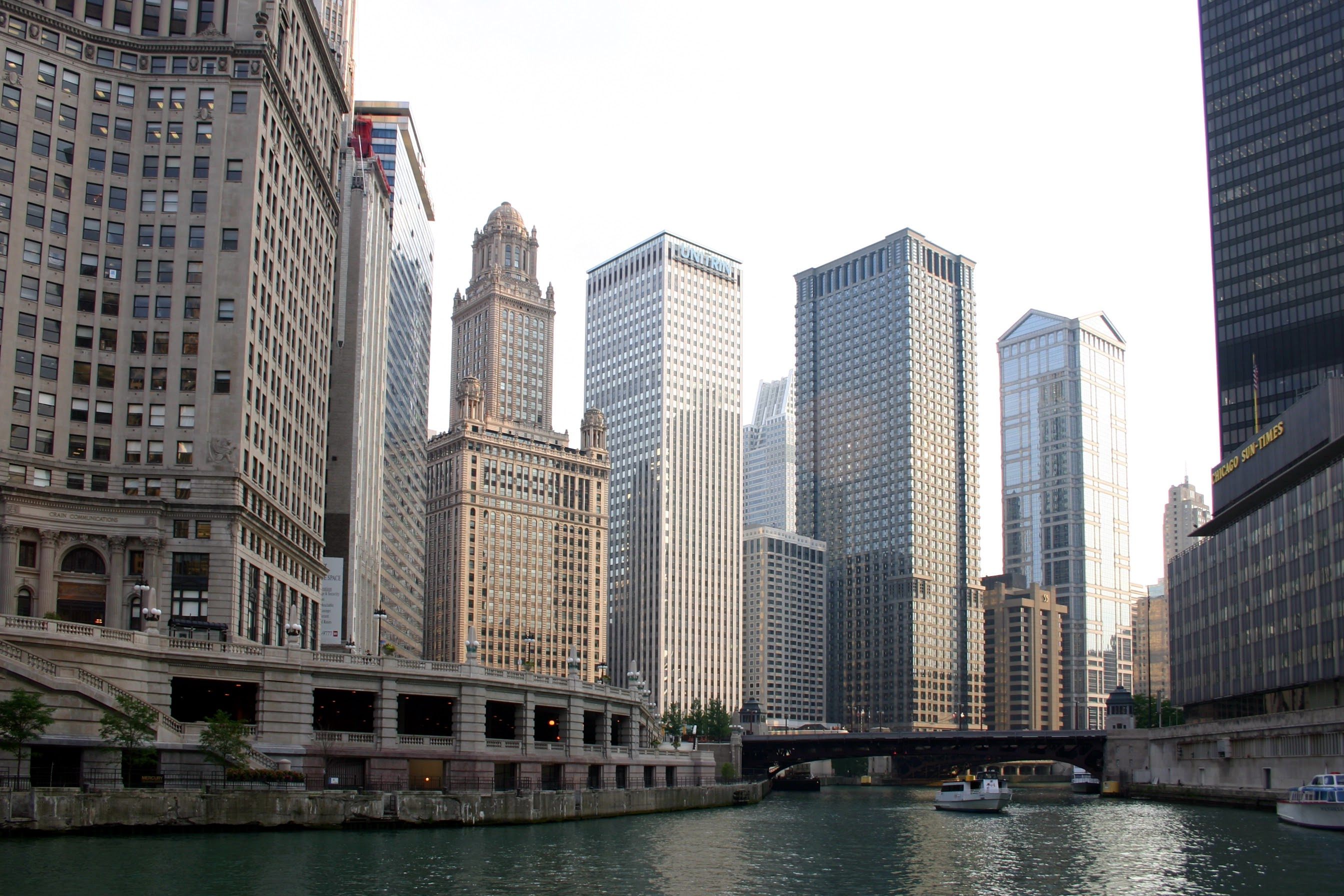 Downtown buildings line the Chicago River